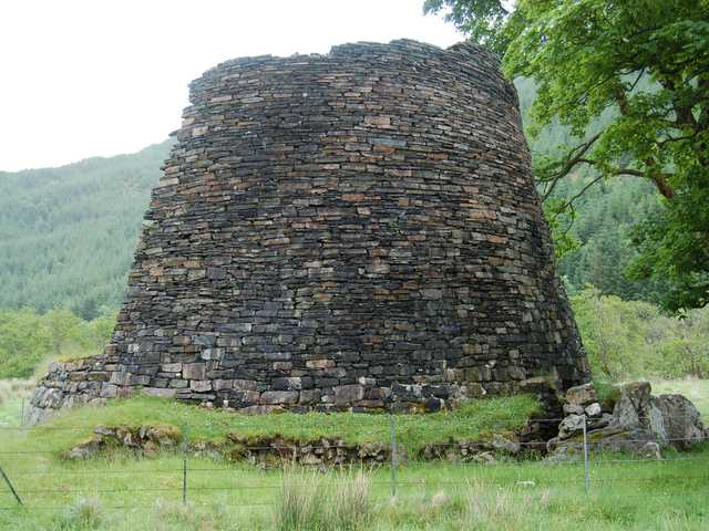 Dun Telve. A view of the outside of the iron age broch, some 30 ft high.